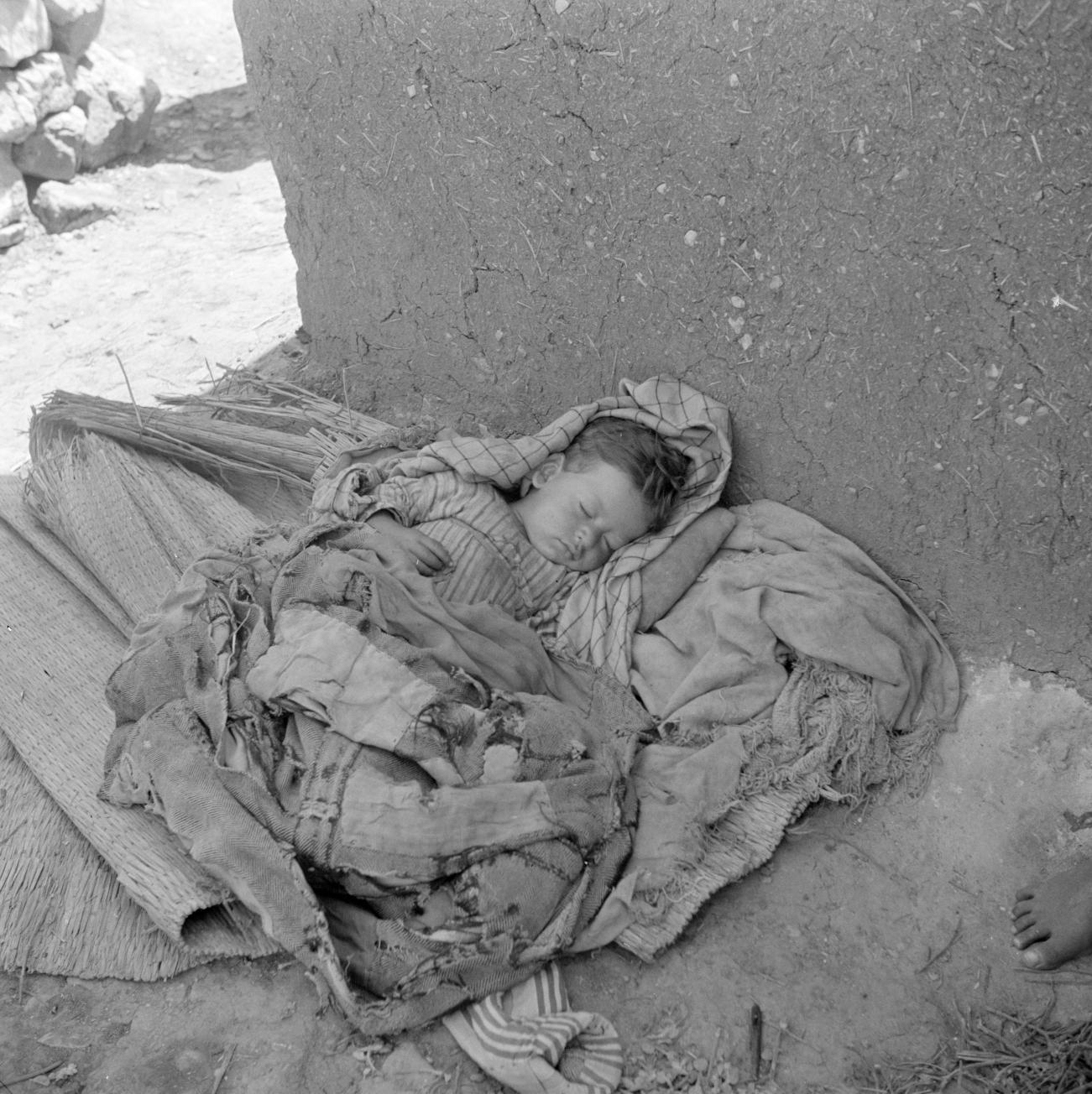 Beschrijving: Slapend kind in vluchtelingenkamp Bira bij Nablus (nu Westelijke Jordaanoever, destijds Jordanië). Datum: 1953 Bestanddeelnummer: 255-5755 Vervaardiger: Poll, Willem van de URL: Voor meer informatie over het Nationaal Archief: Voor meer foto's uit deze en andere collecties, bezoek onze Beeldbank: U kunt ons helpen onze kennis van de fotocollecties te verrijken door tags en commentaren toe te voegen. Herkent u mensen of locaties of heeft u een bijzonder verhaal te vertellen bij één van de foto's, laat dan een reactie achter (als u ingelogd bent bij Flickr) of stuur een mailtje naar